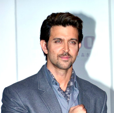 Hrithik at the launch of Rado watch. November 2013